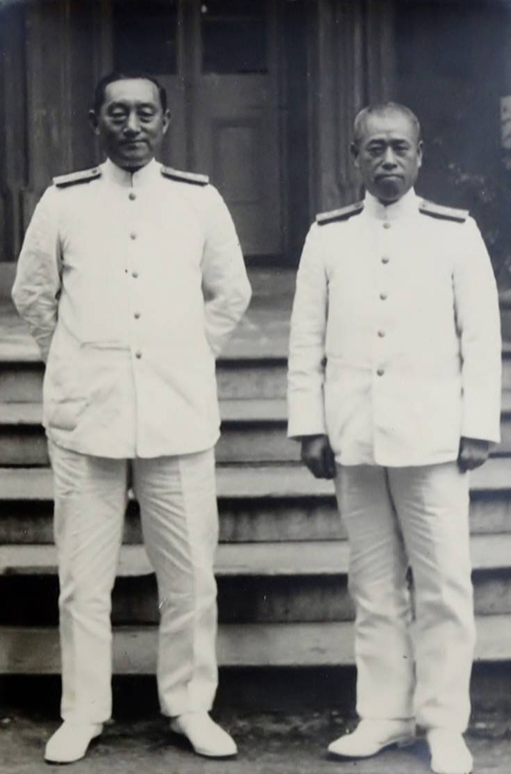 Imperial Japanese Navy Admiral Mitsumasa Yonai (left) with Admiral Isoroku Yamamoto (right) photographed in the late 1930s when Yonai was Navy Minister and Yamamoto was vice-minister.